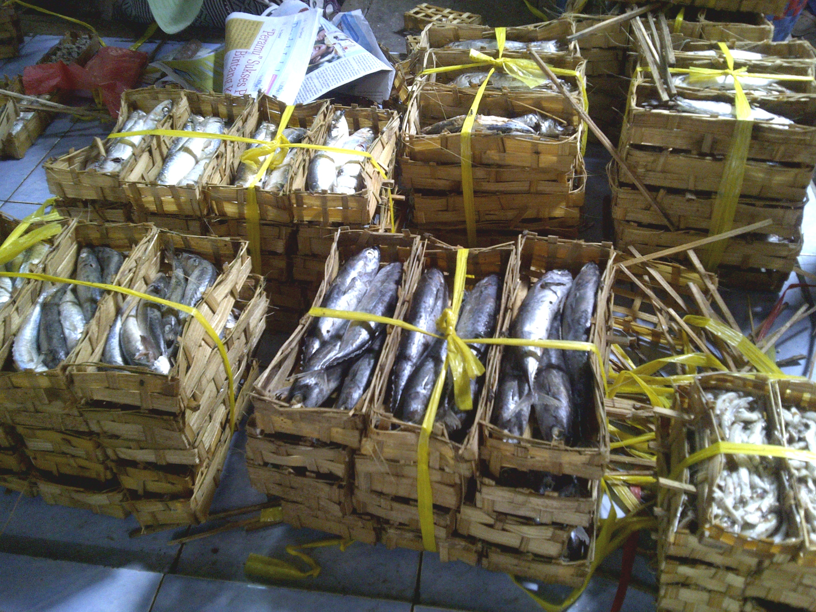 The distribution and marketing of pindang fishes at Kalibaru, Banyuwangi, East Java, Indonesia